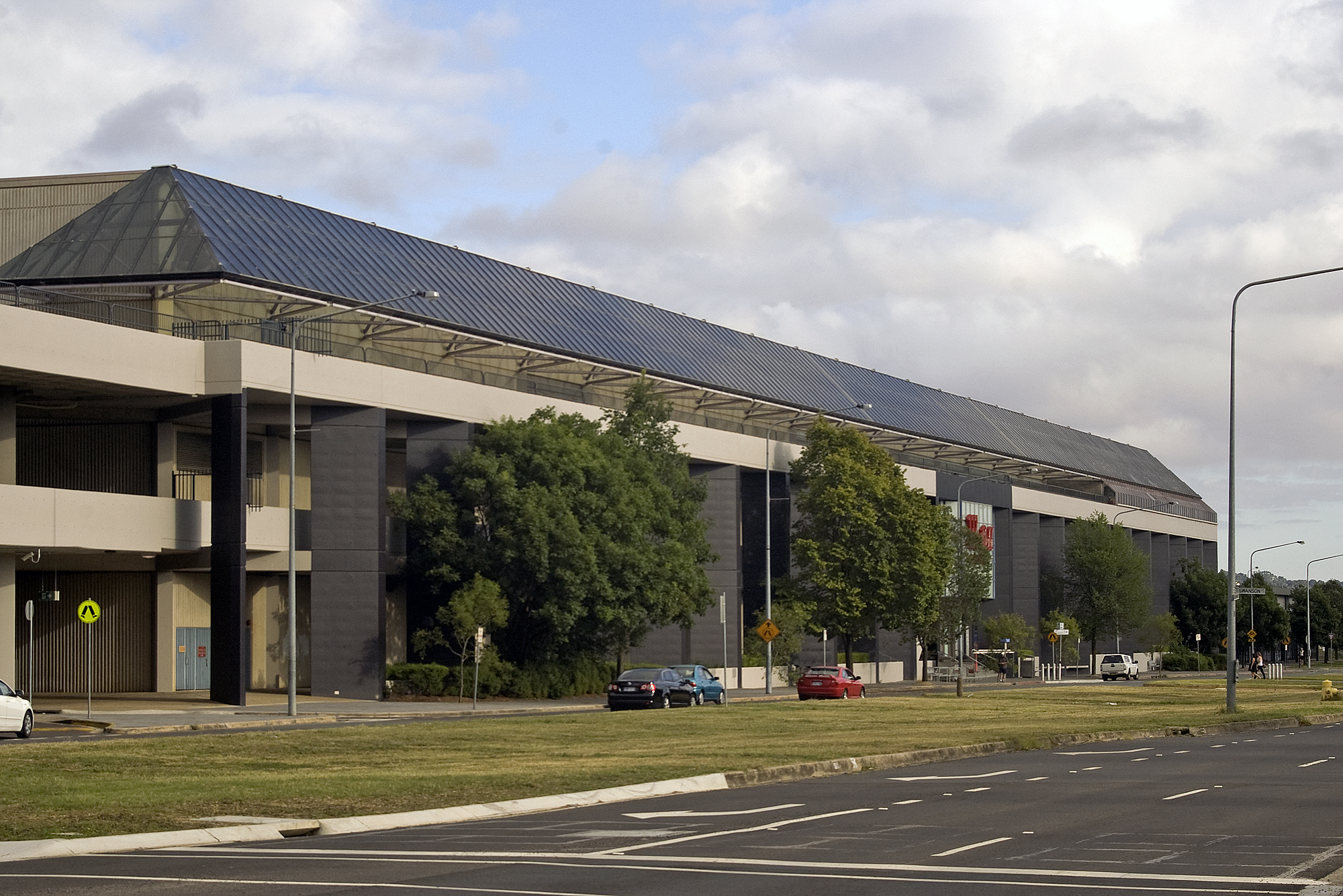 Westfield Belconnen viewed from the Belconnen Bus Interchange and Benjamin Way.